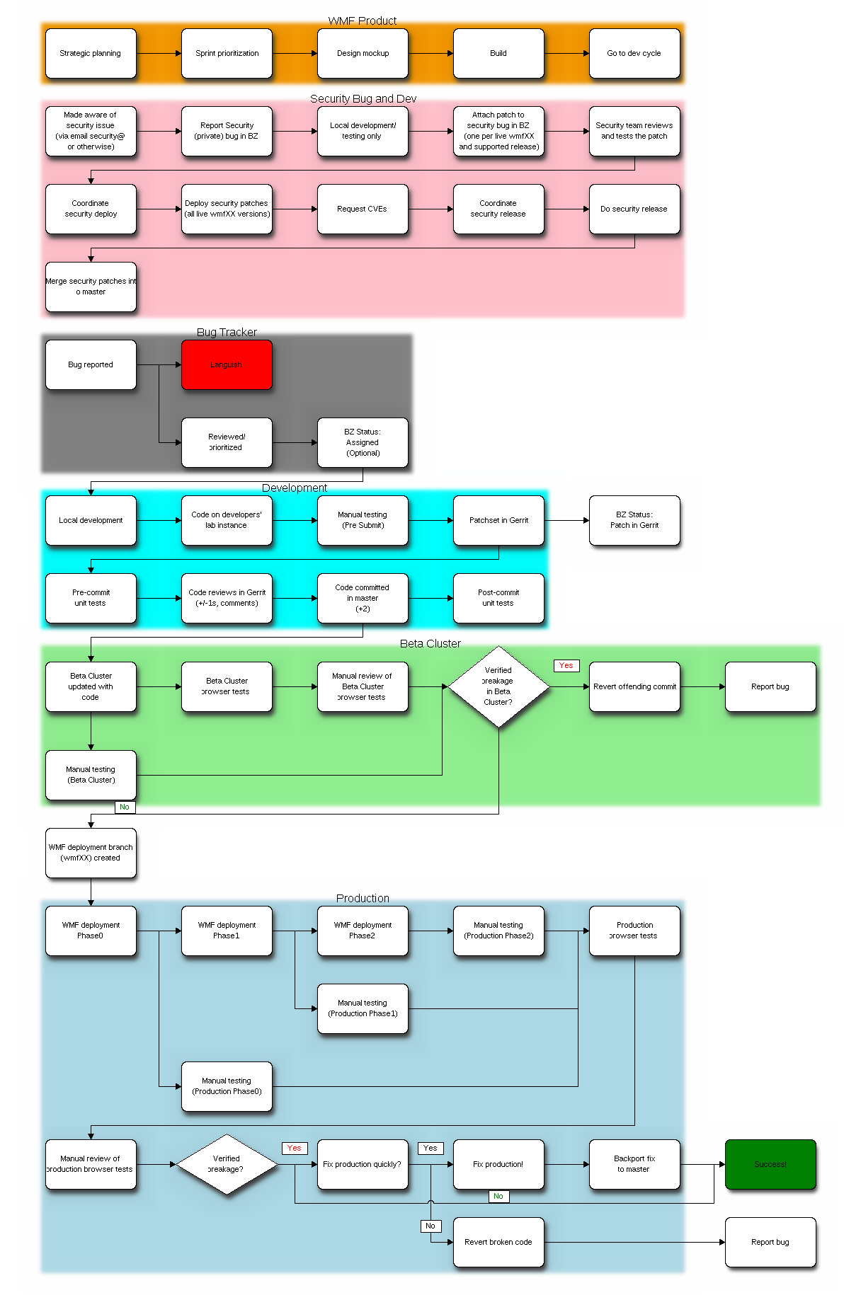 This flowchart represents the development and deployment process in use by the Wikimedia Foundation as of March 2014.